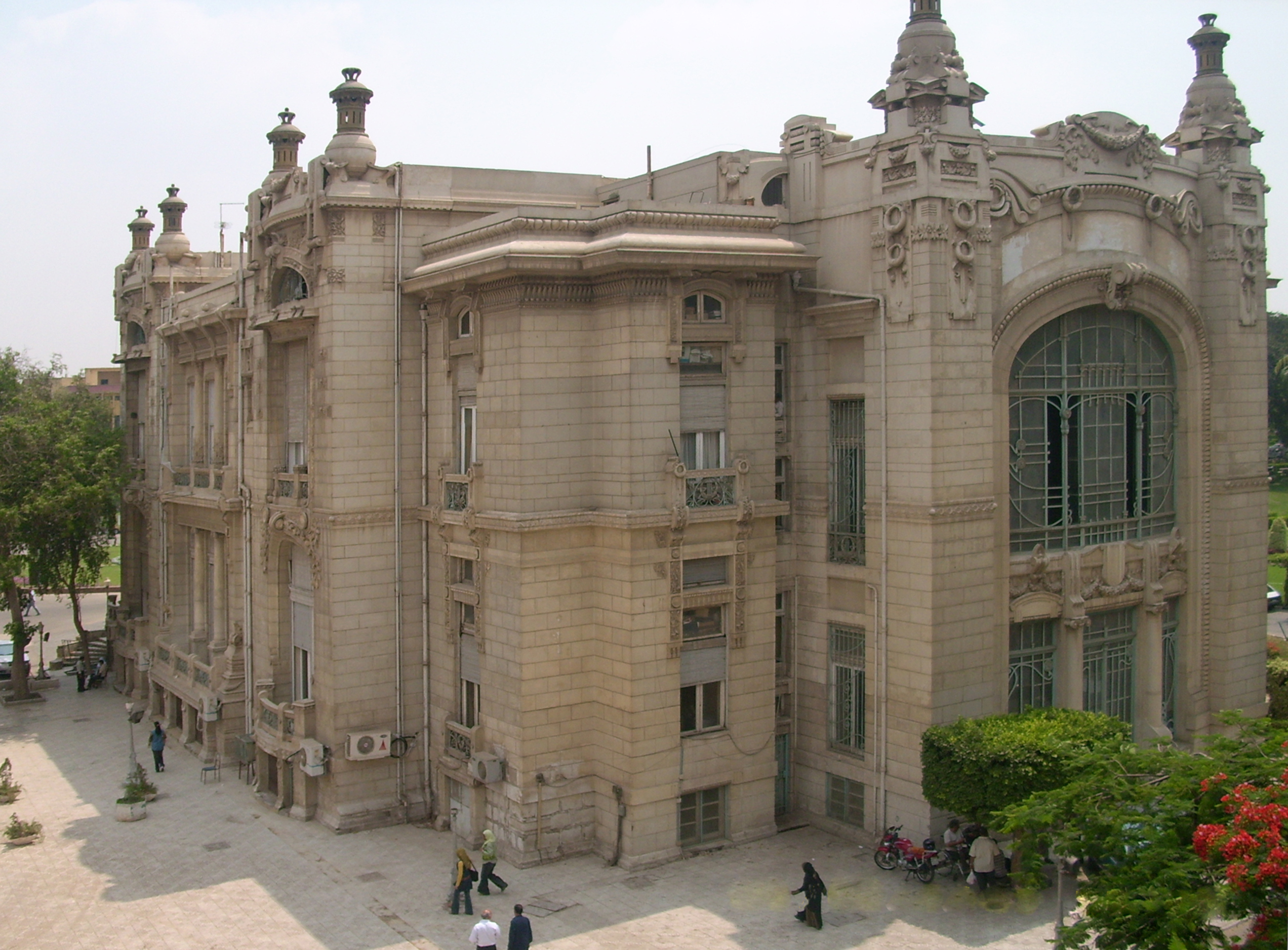 Ain Shams University-Zafarana Palace